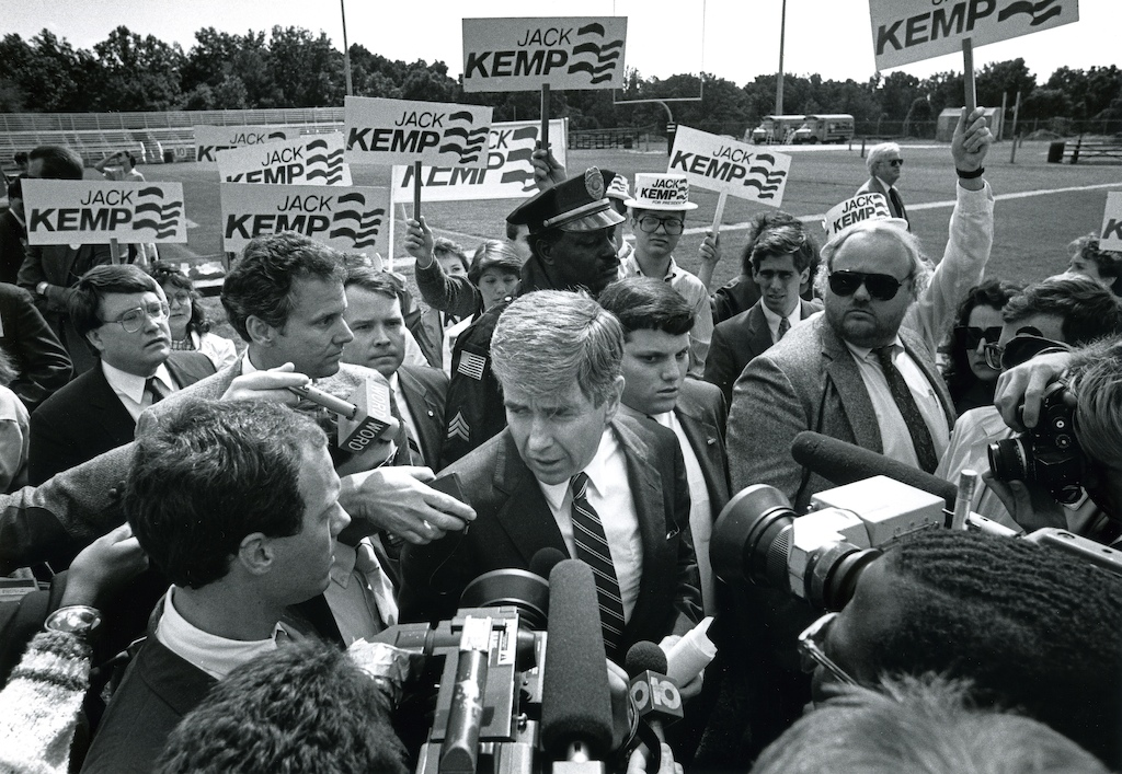 Jack Kemp as he leaves a meet-the-candidates rally for 1988 Republican presidential candidates at county stadium in en: Union, SC on October 3, 1987.